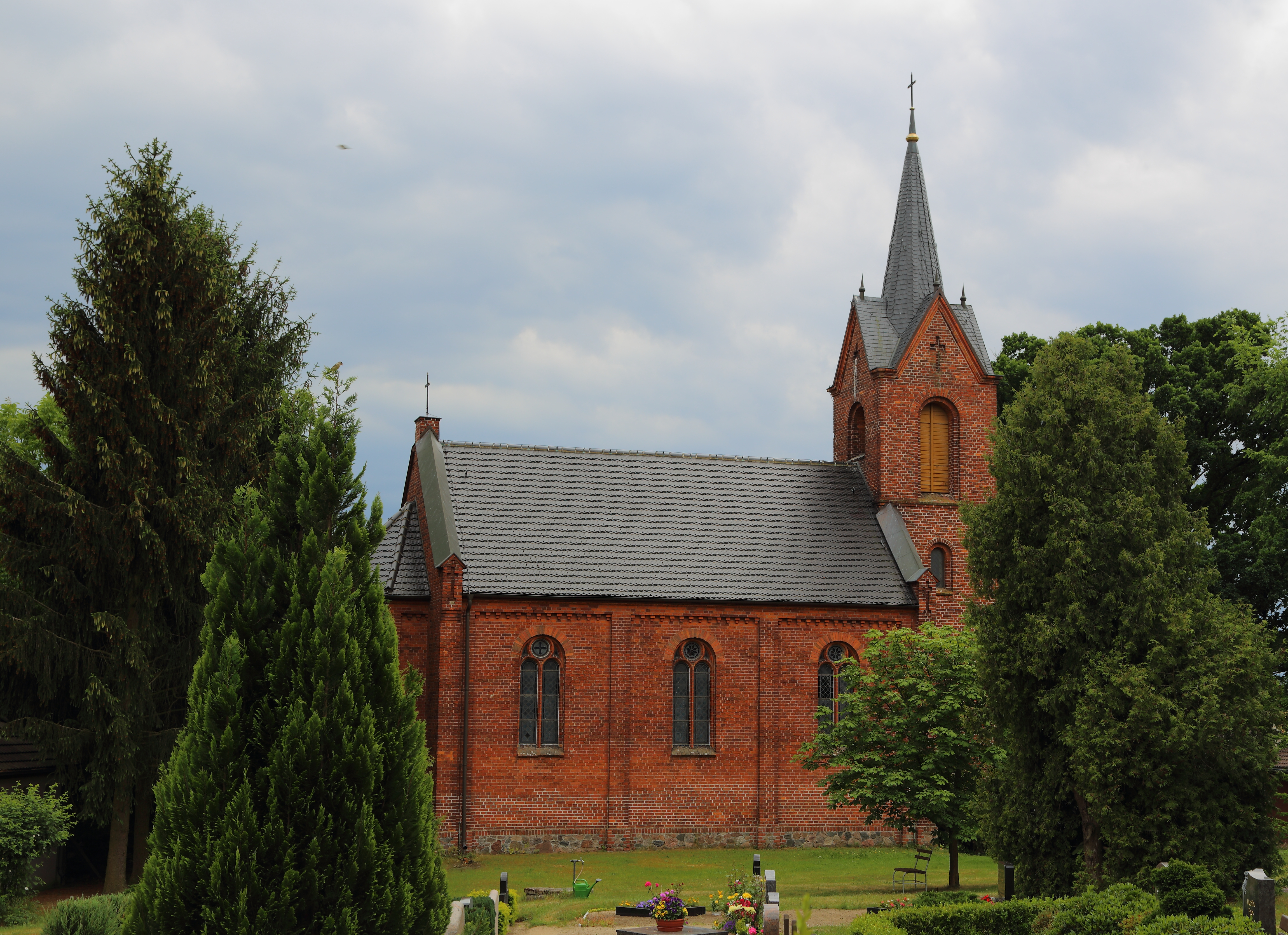 Protestant church (Dorfkirche) in Schwielochsee-Mochow, Landkreis Dahme-Spreewald, Brandenburg, Germany.